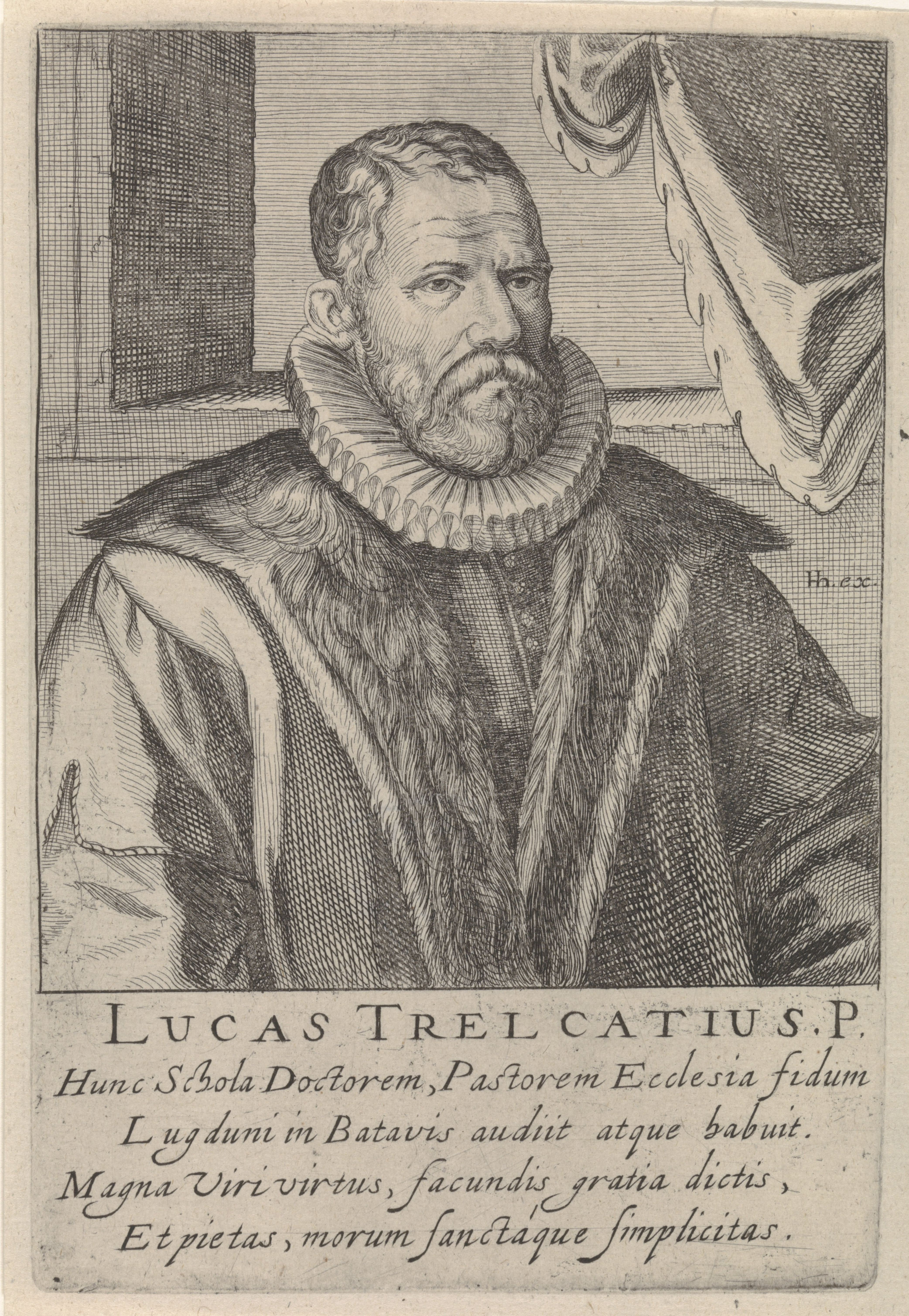 Portrait of Lucas Trelcat the Elder, by Hendrik Hondius for Simon Frisius, part of volume II in a book on Dutch reformers (VI first published in 1599)